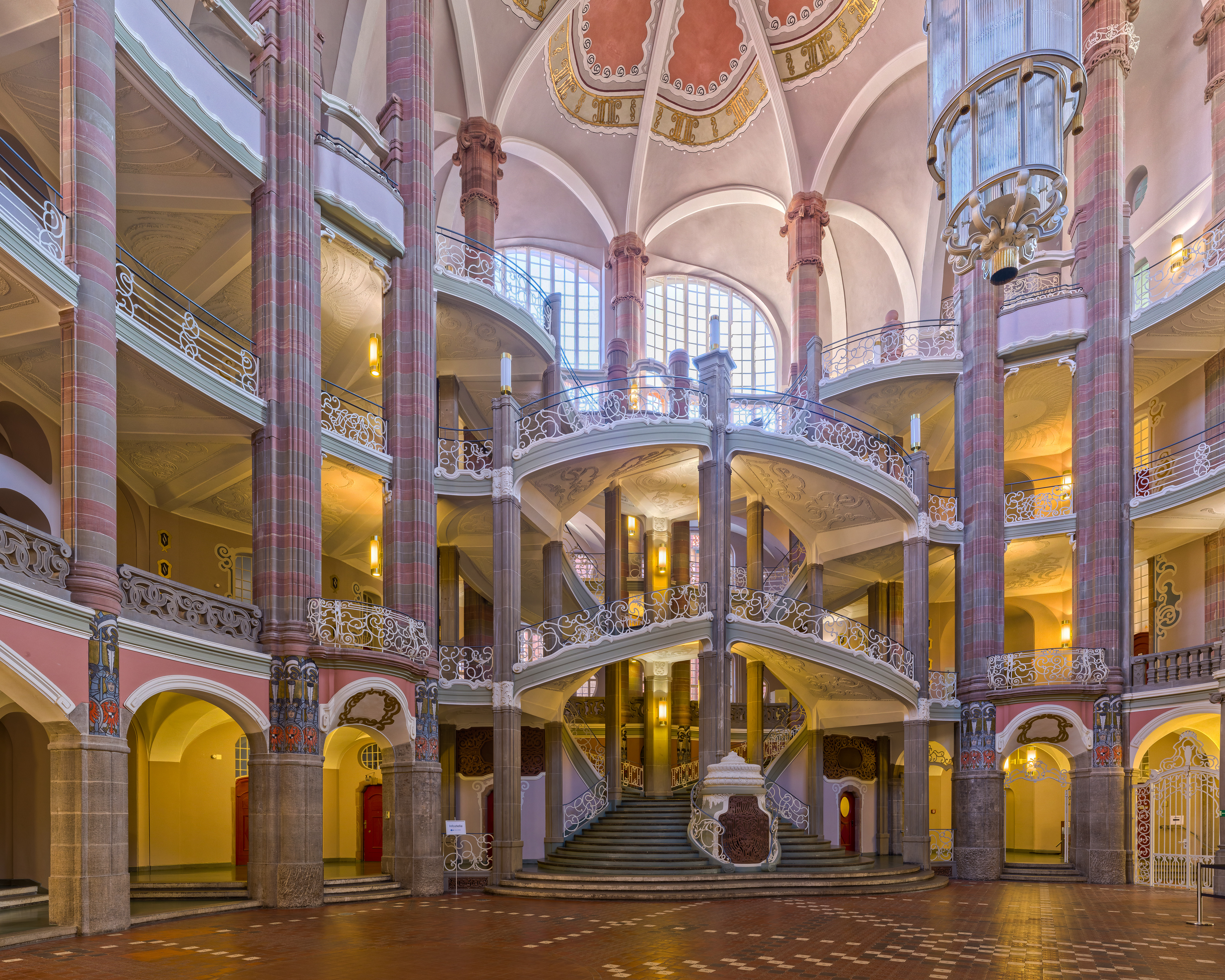 Entrance hall of the regional court of Berlin located in Littenstrasse 12-17 in Berlin-Mitte.This is a photograph of an architectural monument.